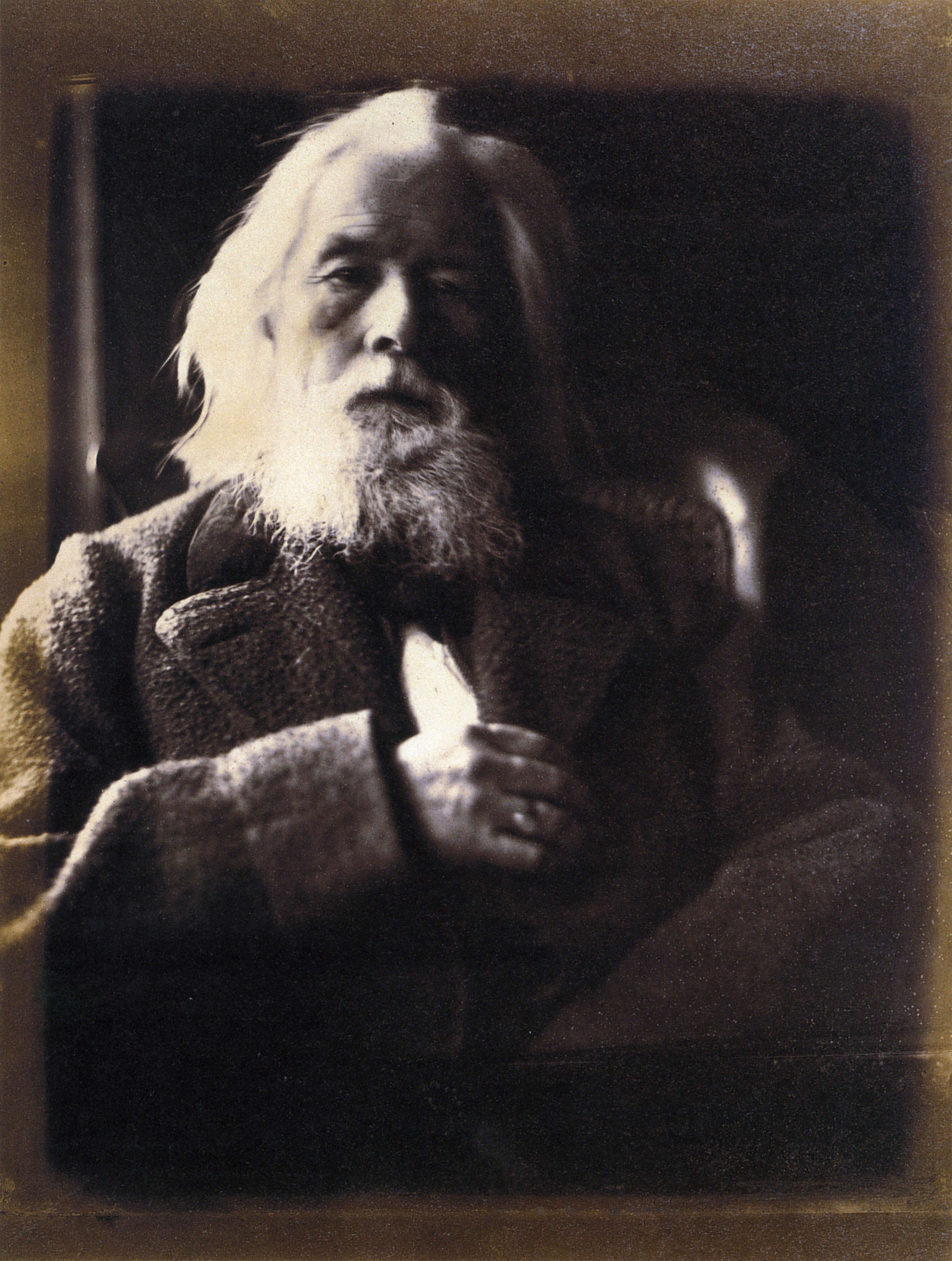 Subject is Charles Hay Cameron, husband of Julia Margaret Cameron. Albumen print, 291 x 223mm (11 1/2 x 8 3/4"). The J. Paul Getty Museum, Los Angeles.